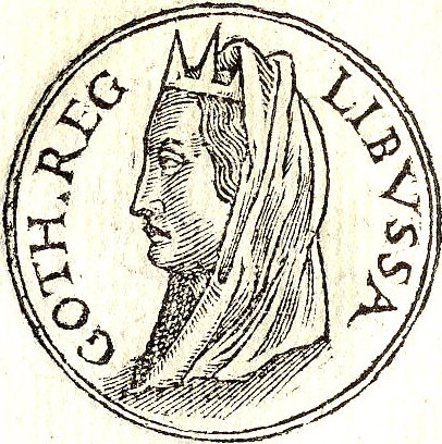 Libuše is said to have been the daughter of the equally mythical Czech ruler Krok, and she married Přemysl who was the mythical ancestor of Přemyslid dynasty in Czech. She became the mother of Nezamysl.